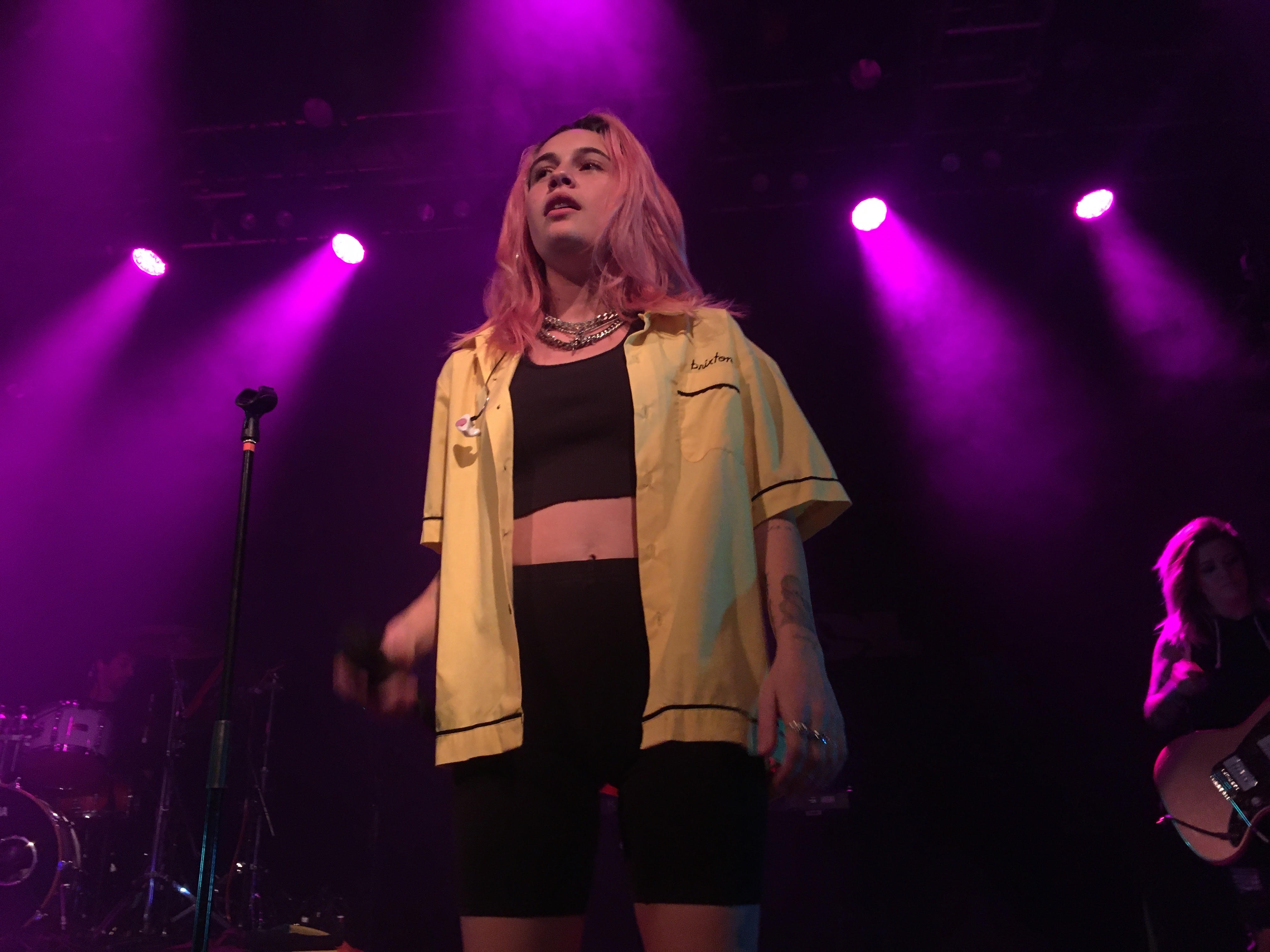 Bea Miller at O2 London Islington (Better quality upload)